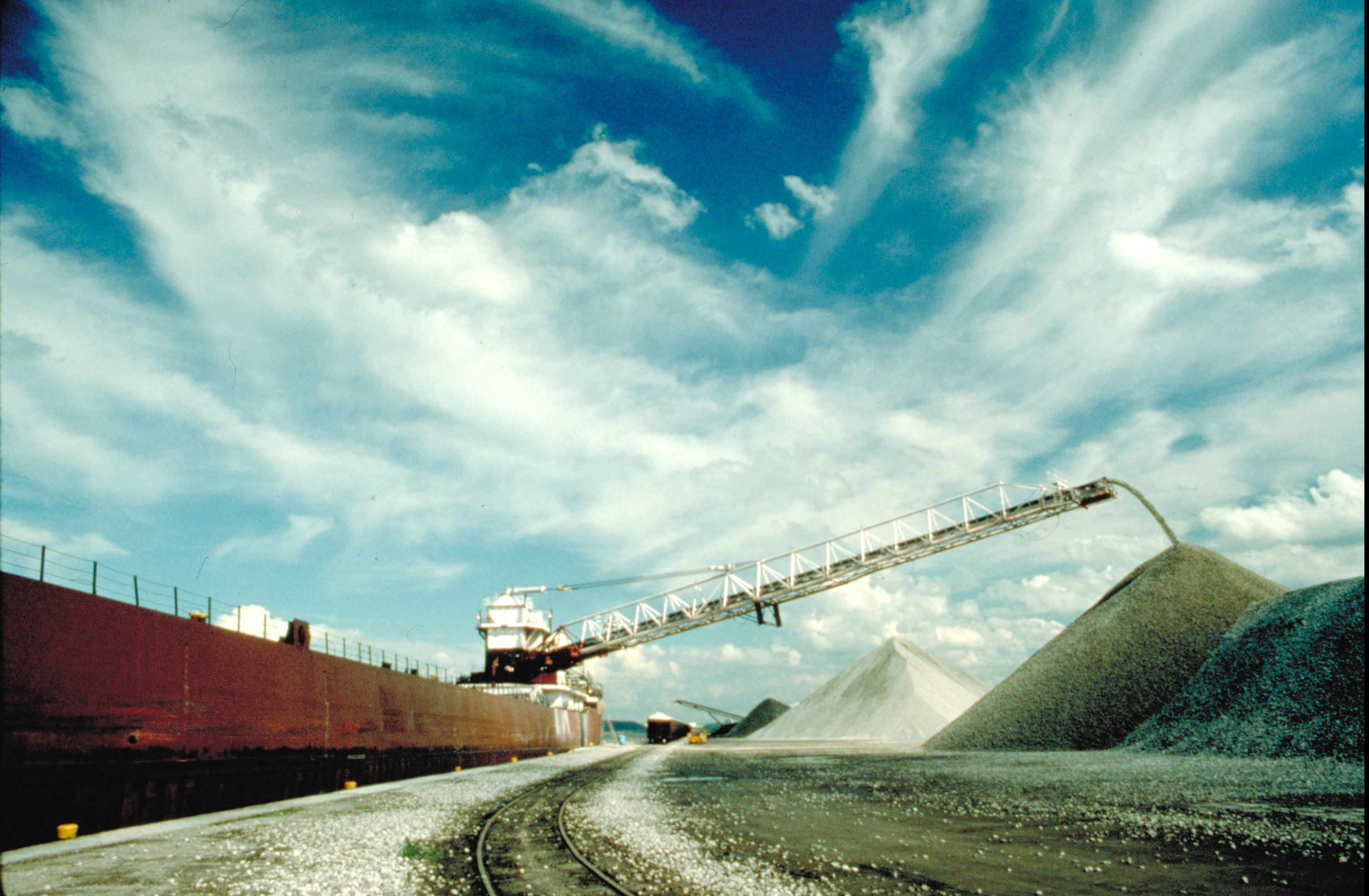 A laker at the Hallet Dock No.6, unloading limestone in Duluth Minnesota. This laker is a self unloader.